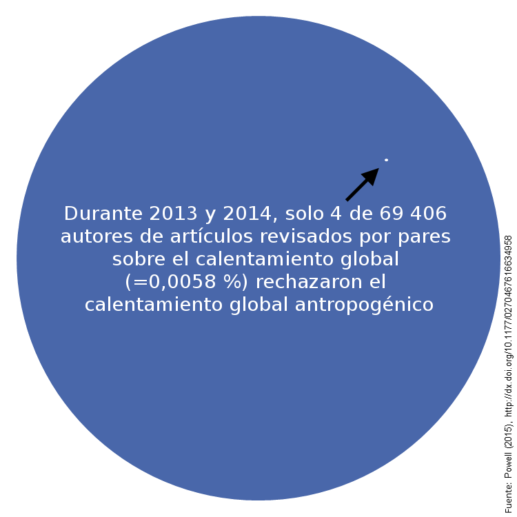 translation of Rejection of anthropogenic global warming in scientific journals into Spanish